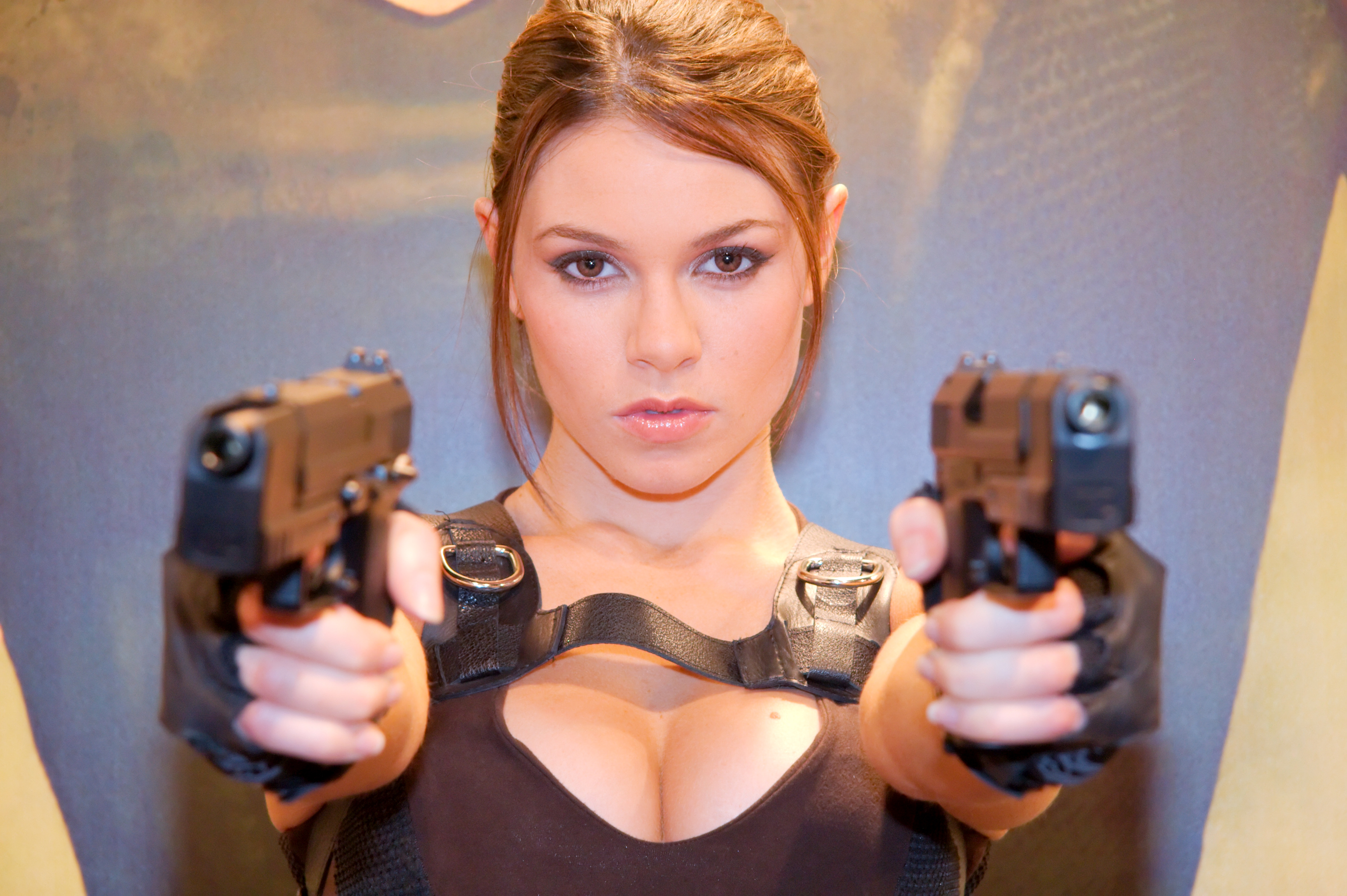 Alison Carroll, the official Lara Croft model for Tomb Raider: Underworld at Festival du jeu vidéo 2008 (Paris, France).